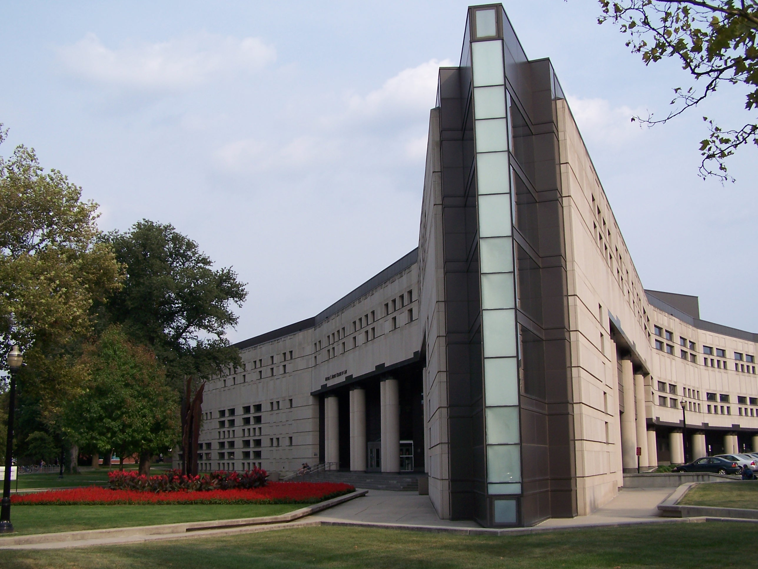 Drinko Hall: Home of the Ohio State University Michael E. Moritz College of Law.